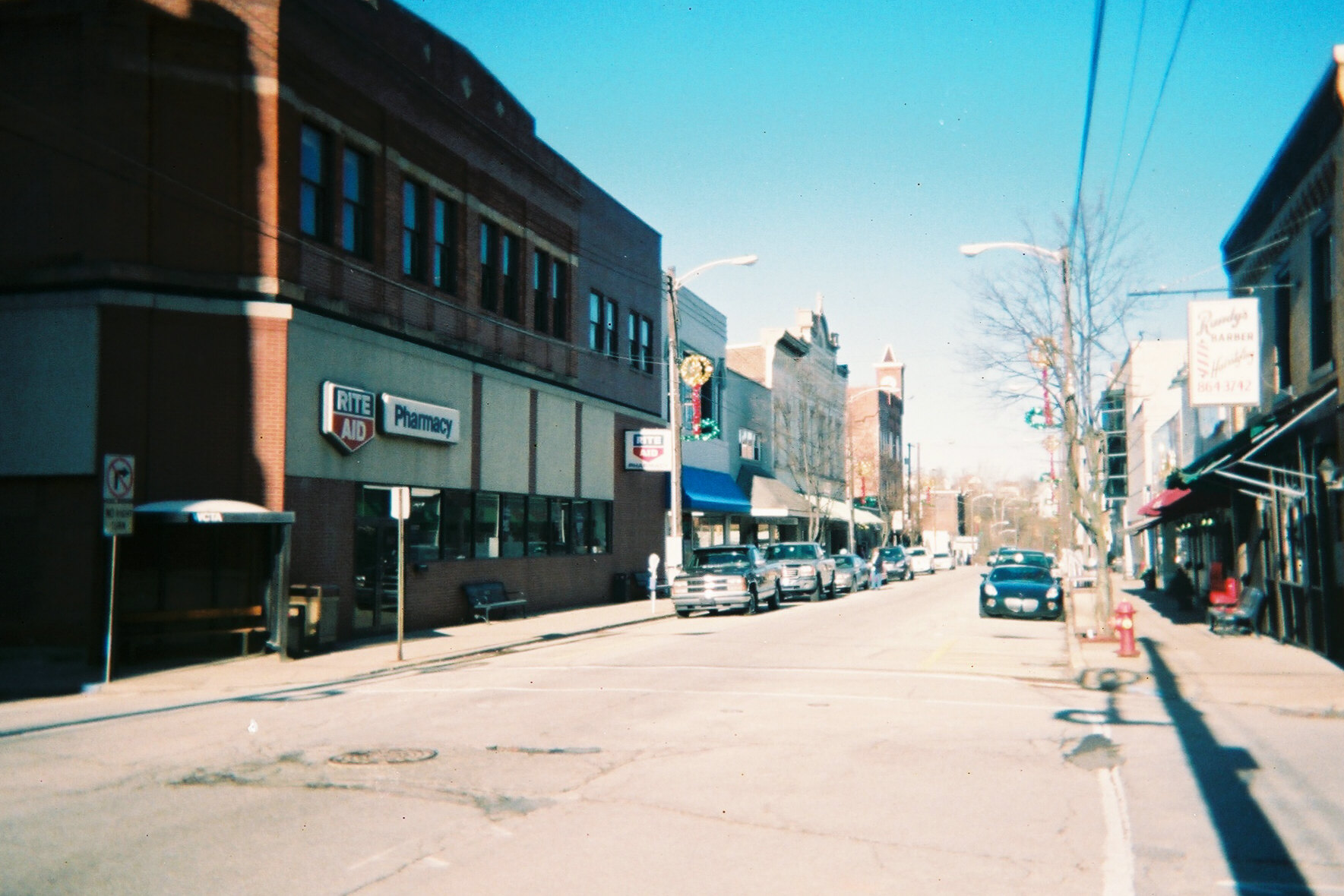 Downtown Irwin, Pennsylvania, looking northward from the intersection of Main Street and Fourth Street